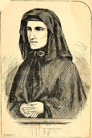 Trial of Susan Saurin v Star & Kennedy in 1869